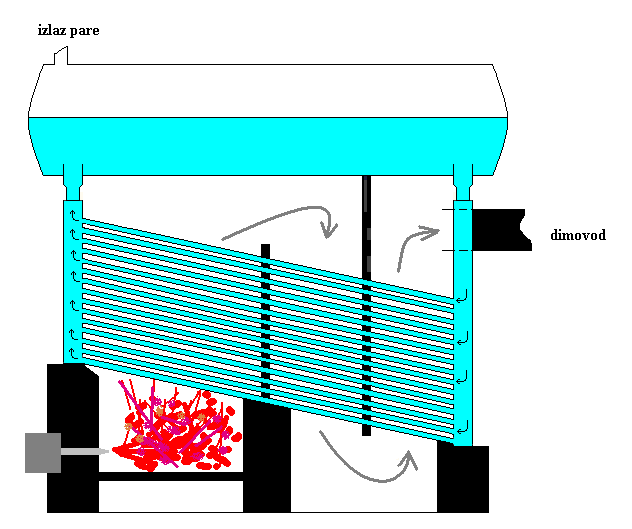 design of single drum, free circulation, water tube boiler